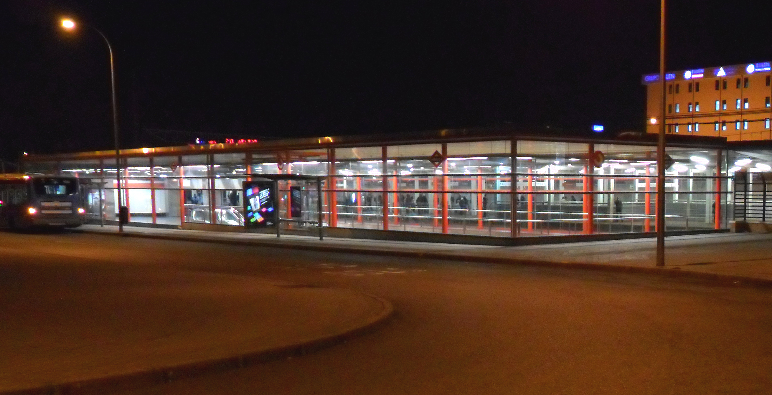 Entrance of Villaverde Alto Metro and Cercanías station in Villaverde district in Madrid (Spain).